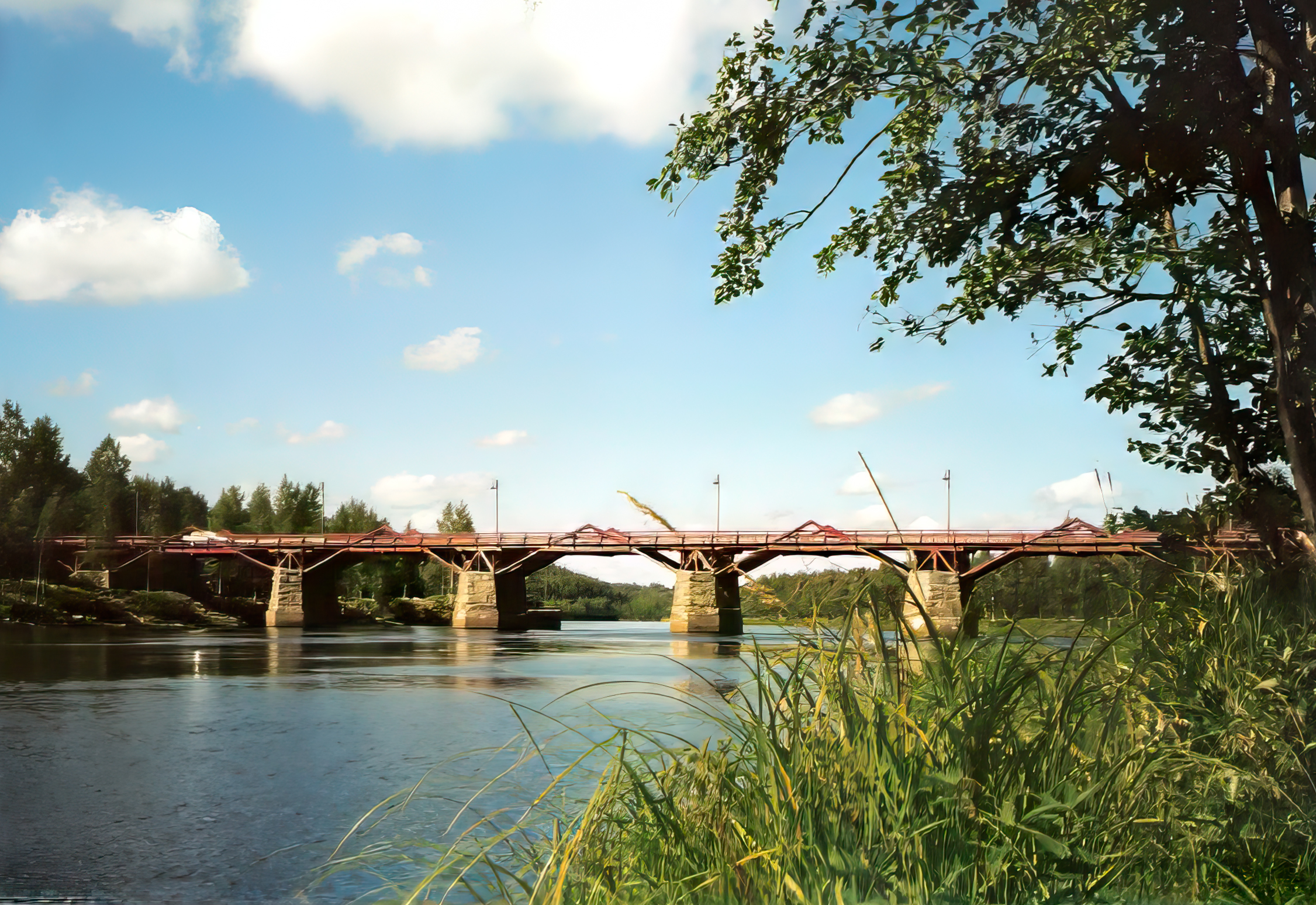 Wood bridge in Skellefteå, Sweden